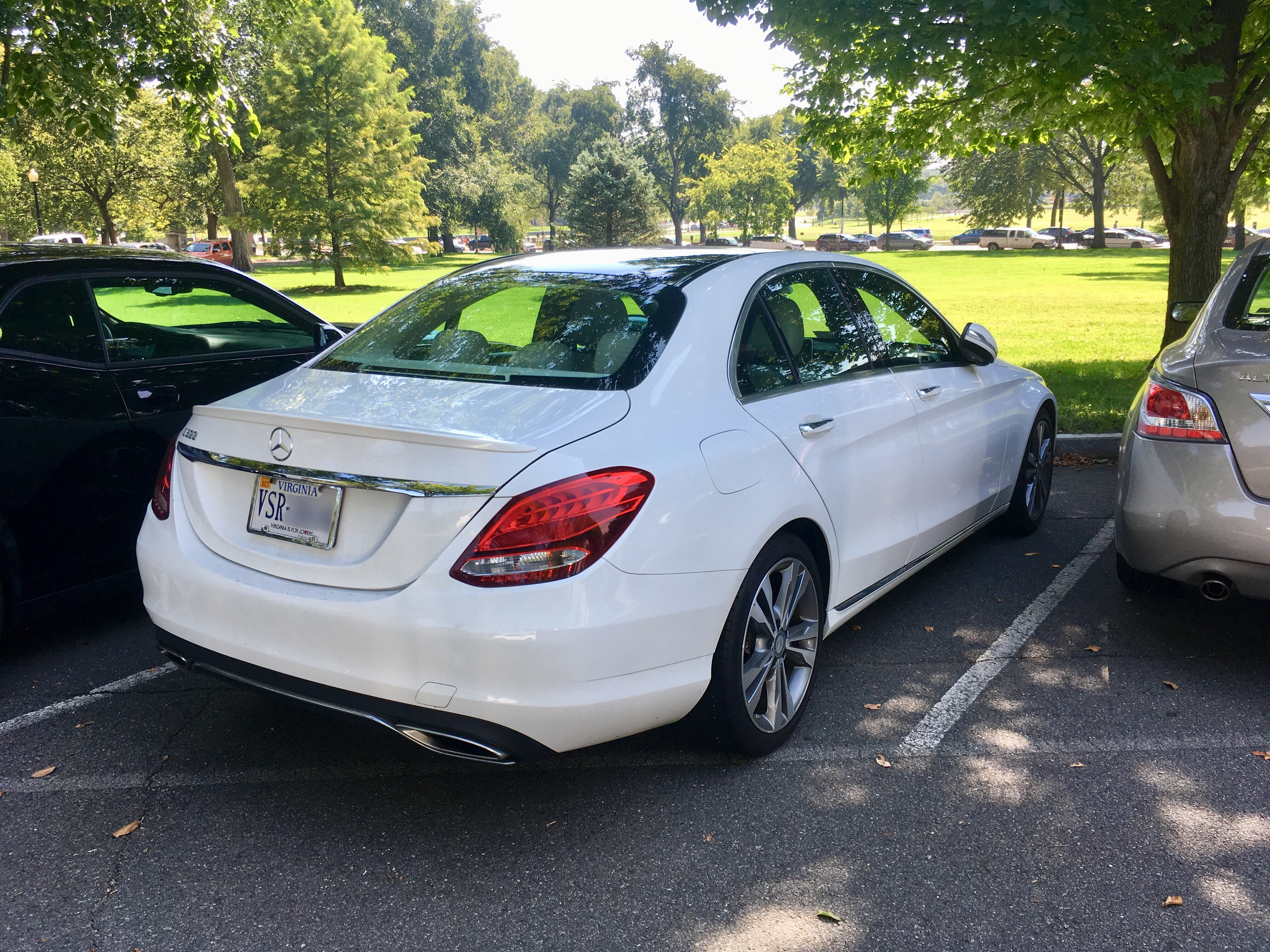 Mercedes C300